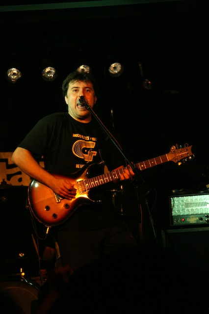 Foto de un concierto en Madrid